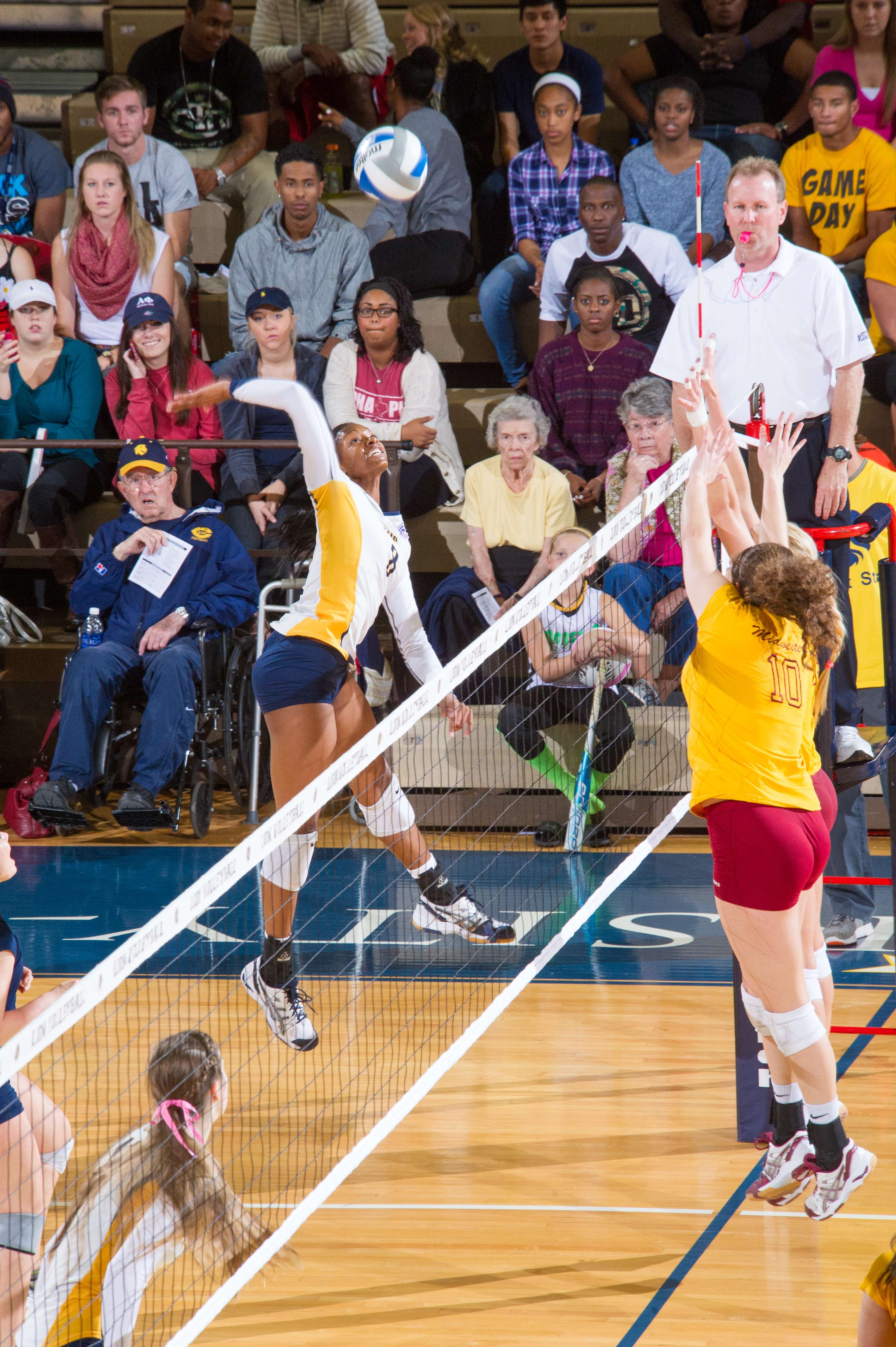 Volleyball vs MSU-4422 2013–14 Texas A&M–Commerce Lions women's volleyball team